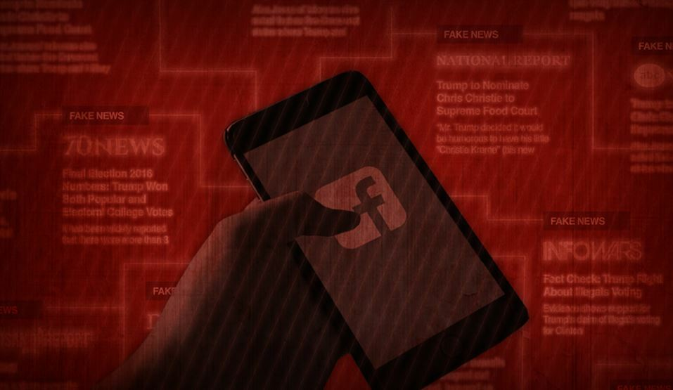 Graphic on fake news websites made by VOA News